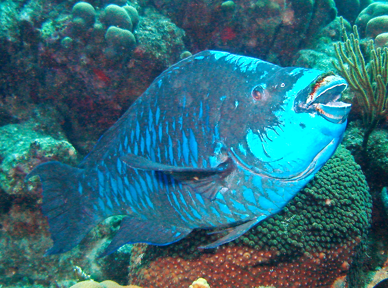 Midnight Parrotfish (Scarus coelestinus)